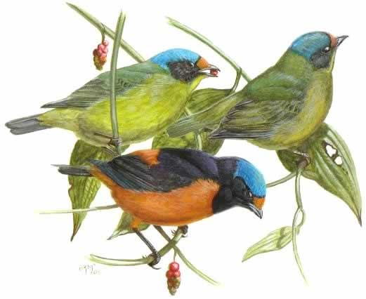 Antillean Euphonia